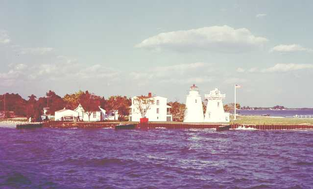 Piney Point Light Station, Potomac River, Maryland, USA